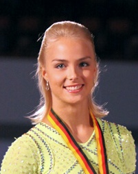 Kiira KORPI (FIN) at the 2009 Nebelhorn Trophy.